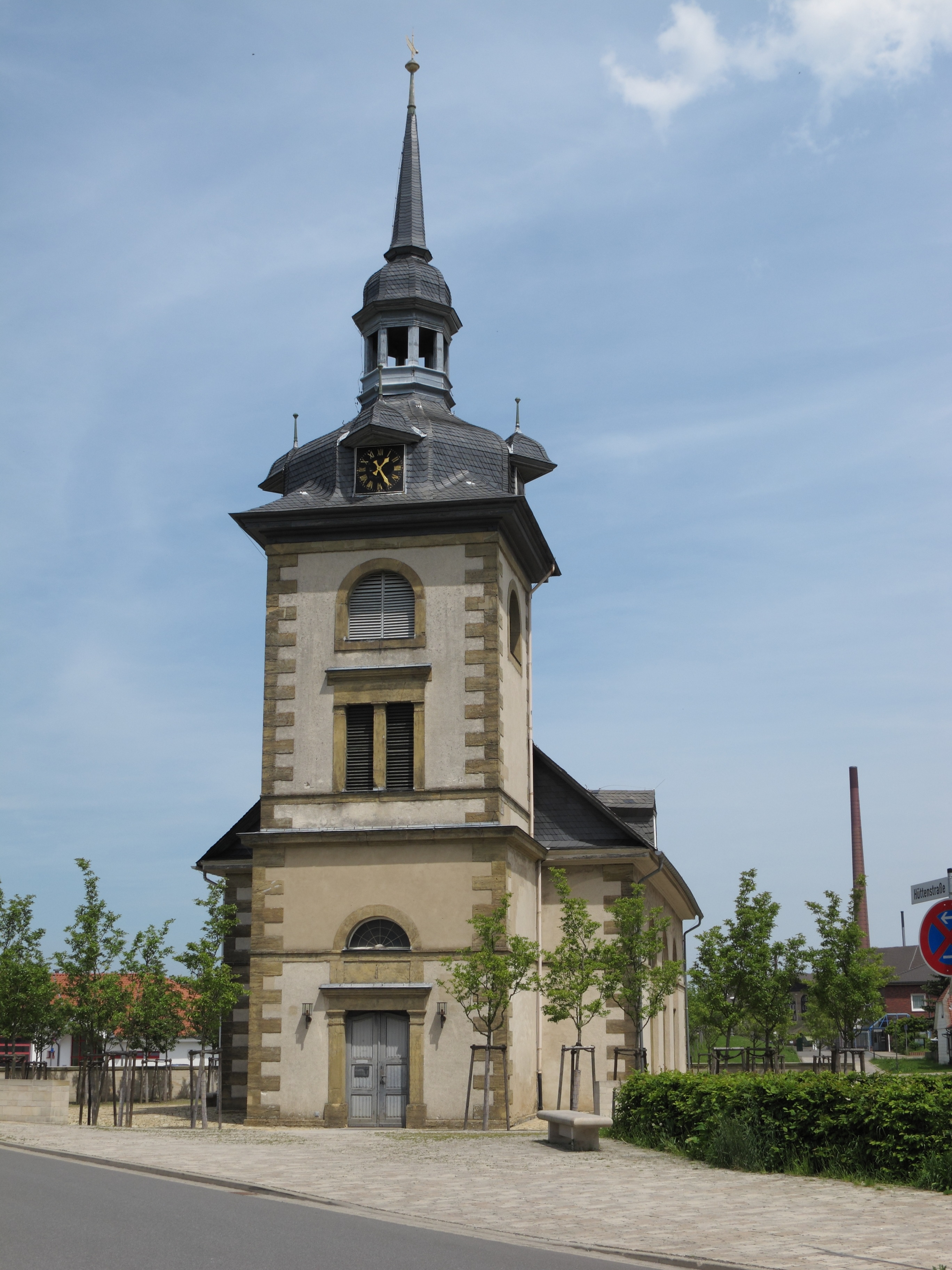 Protestant Martin-Luther-Church, Oker, Germany, built in 1836